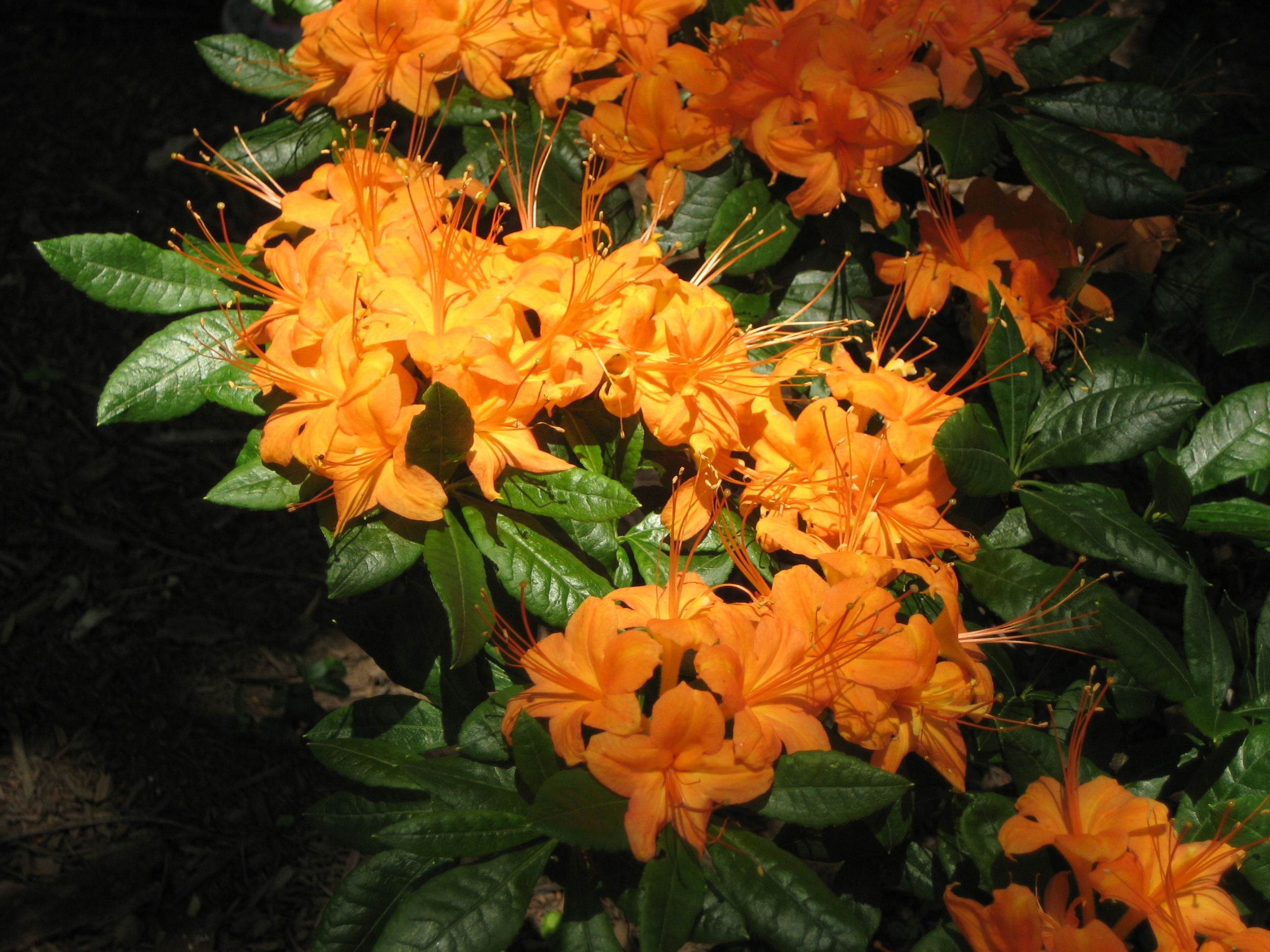 Kurume hybrid of Azalea crossed with Rhododendron 'Firefly' on the grounds of the Winterthur Country Estate Museum.